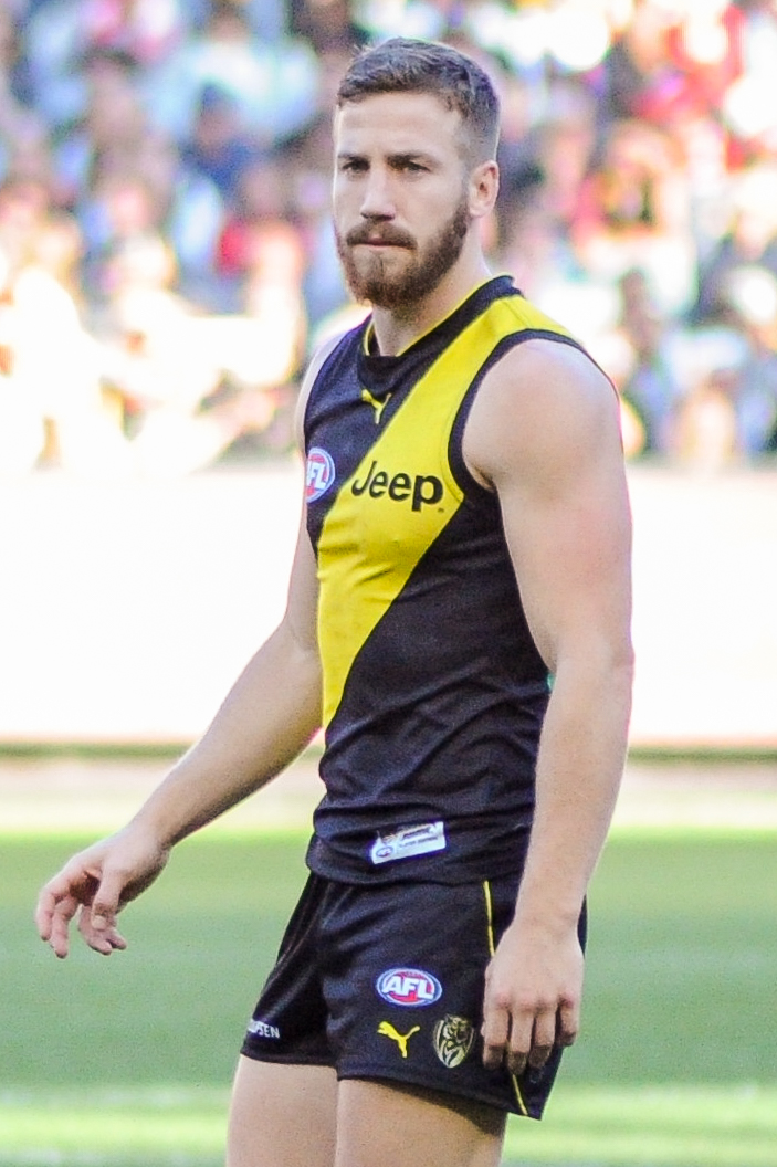 Kane Lambert during the AFL round thirteen match between Richmond and Sydney on 17 June 2017 at the Melbourne Cricket Ground in Melbourne, Victoria.